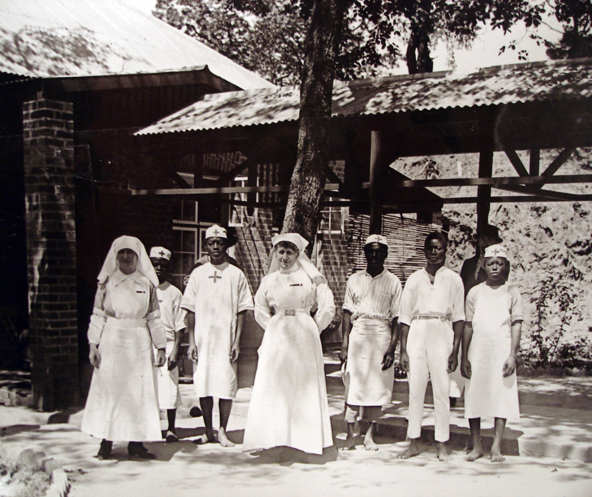 White nurses of the Union Minière du Haut Katanga and their Congolese assistants, Elisabethville, April 1918.